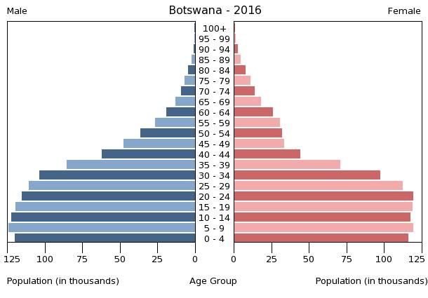 The population pyramid of Botswana illustrates the age and sex structure of population and may provide insights about political and social stability, as well as economic development. The population is distributed along the horizontal axis, with males shown on the left and females on the right. The male and female populations are broken down into 5-year age groups represented as horizontal bars along the vertical axis, with the youngest age groups at the bottom and the oldest at the top. The shape of the population pyramid gradually evolves over time based on fertility, mortality, and international migration trends.